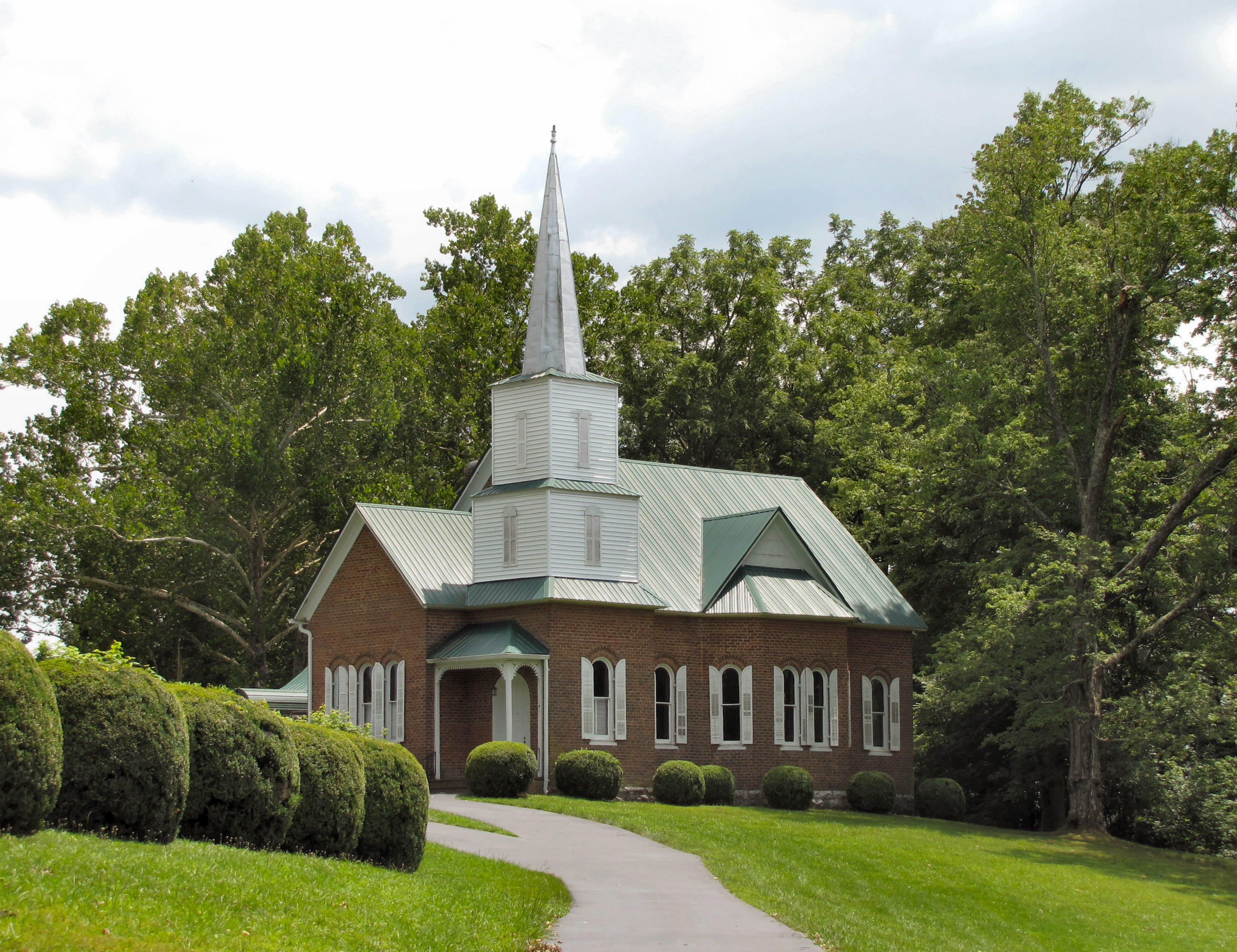 New Providence Presbyterian Church near Surgoinsville in Hawkins County, Tennessee, United States. Built in the early 1890s, this church is now listed on the National Register of Historic Places as part of the New Providence Presbyterian Church, Academy, and Cemetery listing.